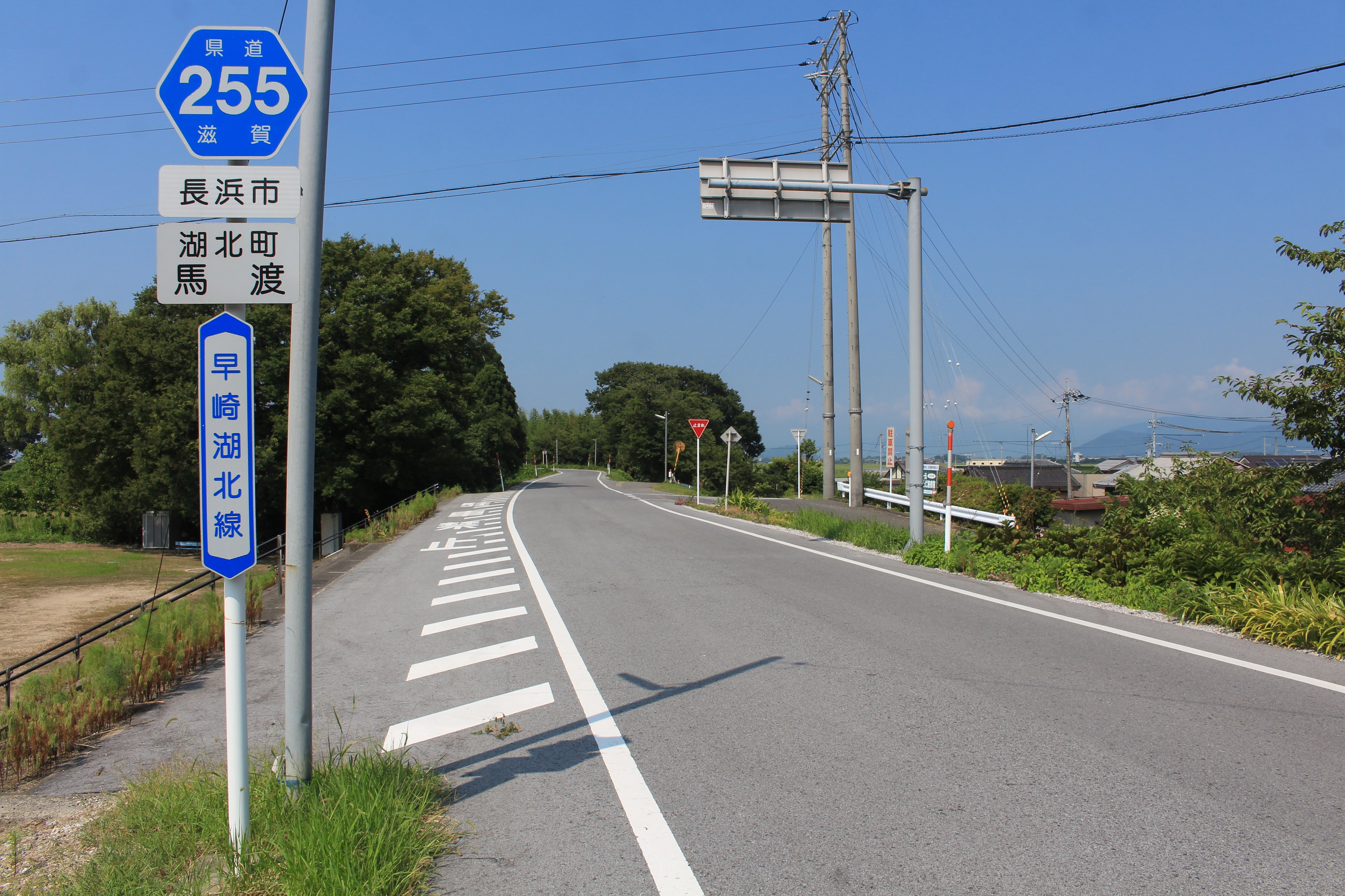 Shiga Prefectural Road Route 255 in Kohoku, Nagahama, Shiga prefecture, Japan.